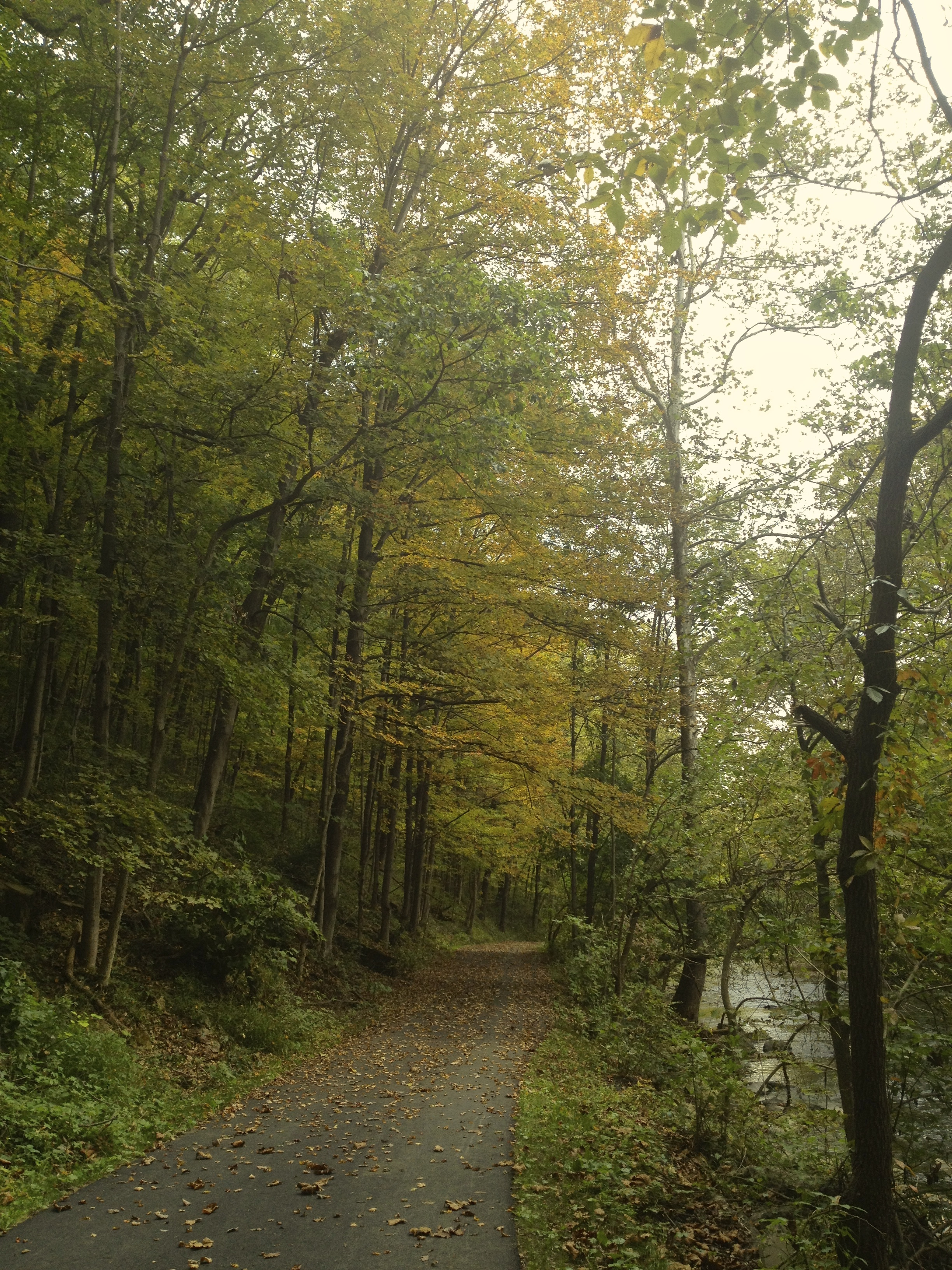 Jordan Creek Greenway, Lehigh County PA